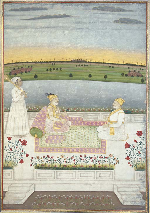 Lot Description 'ALIVARDI KHAN AND A COURTIER MURSHIDABAD, CIRCA 1745 AD Gouache heightened with gold on paper, the ruler seated on a terrace holding a gold ring with a courtier, an attendant standing behind him, mounted on an album leaf Miniature 13¾ x 9¾in. (35 x 25cm. 'Alivardi Khan arrived in Bengal in 1720 and through outstanding ability was appointed to the post of Nawab's deputy in Bihar. Through a powerful alliance with his brother he eventually acceded to the position of Nawab in 1740.")